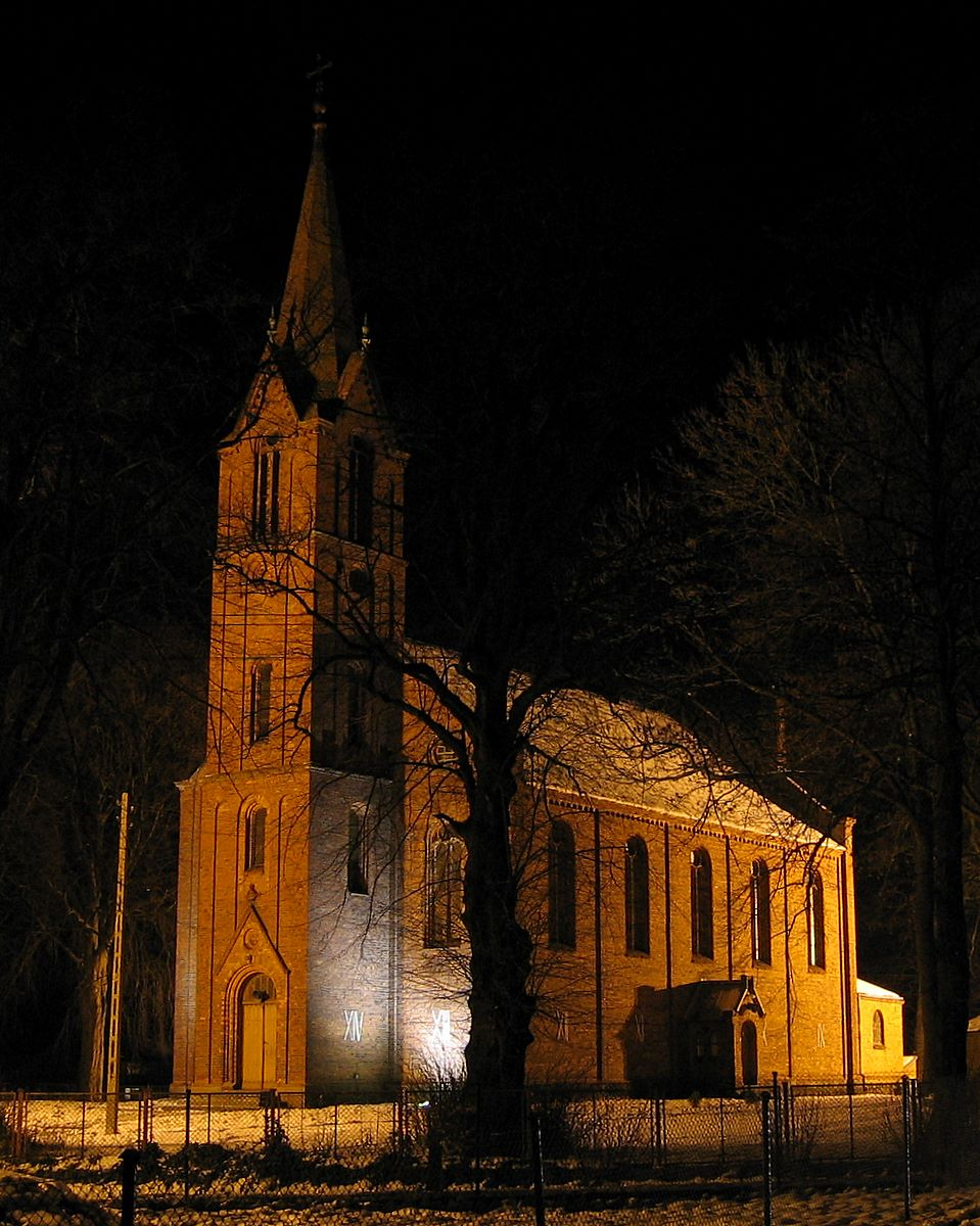 Ascension Roman Catholic Church in Dygowo, Poland